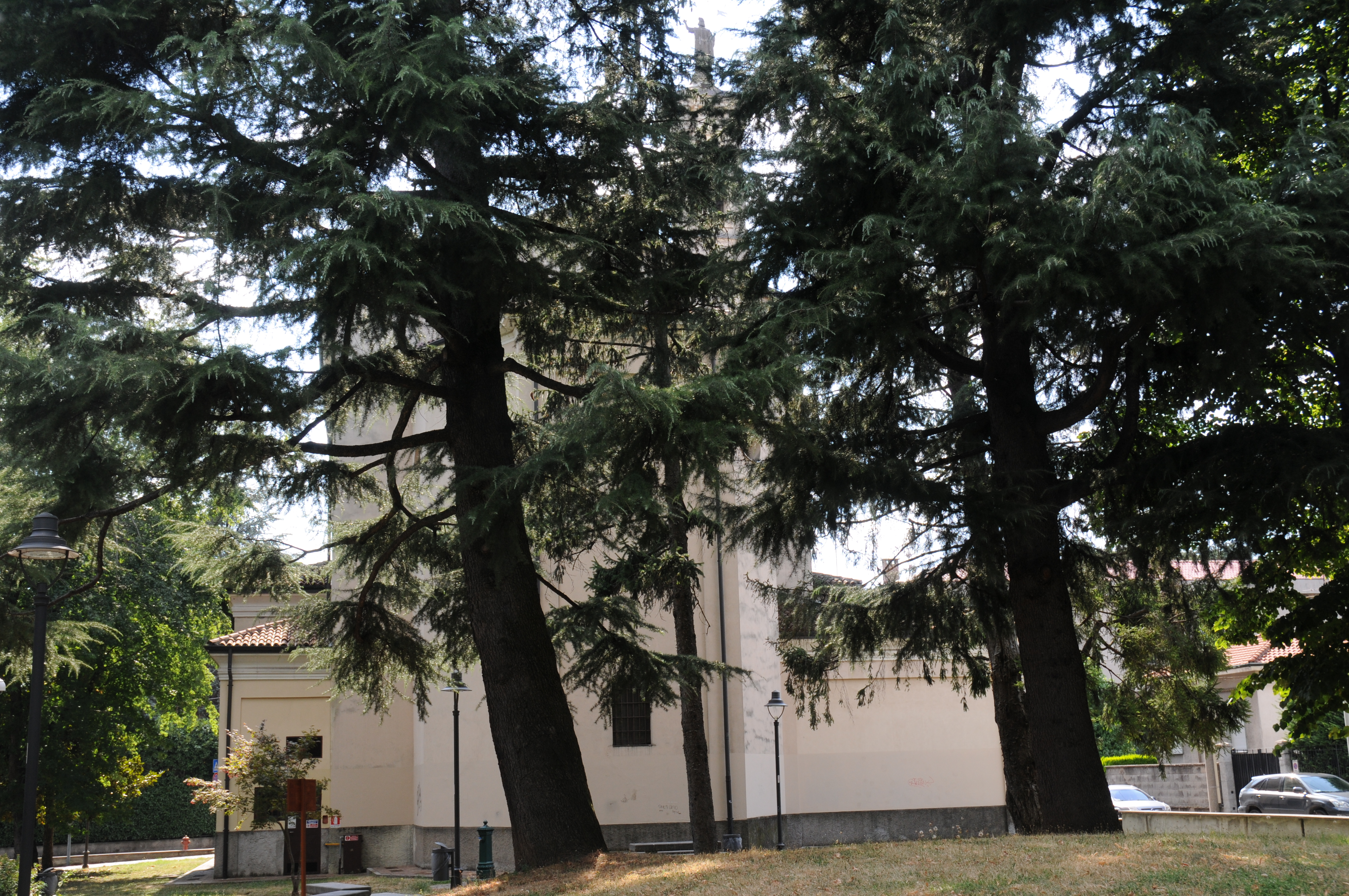 Crucifix Church's gardens in San Giorgio su Legnano (Italy)